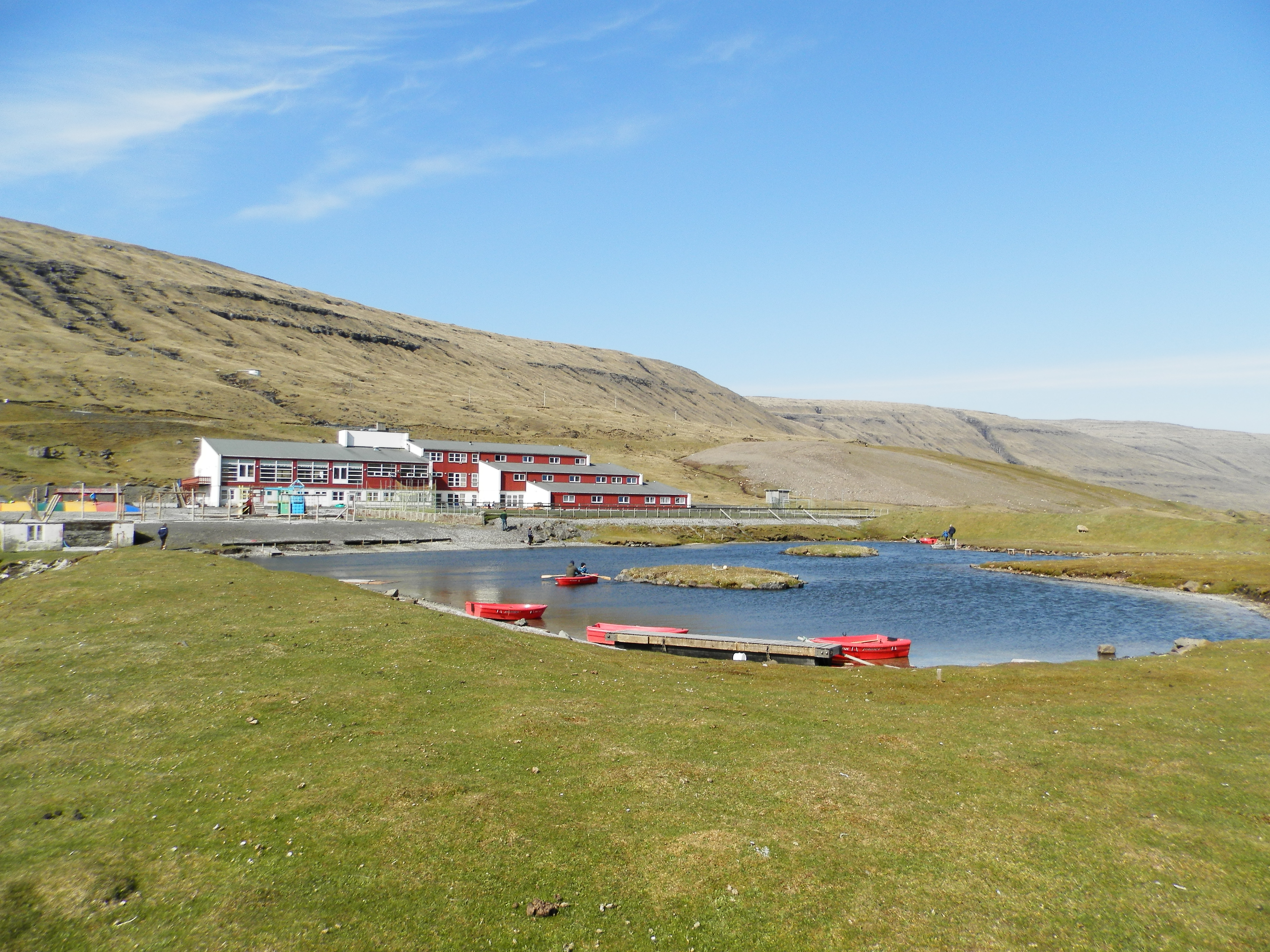 Nesvík, Streymoy, Faroe Islands in May 2013.